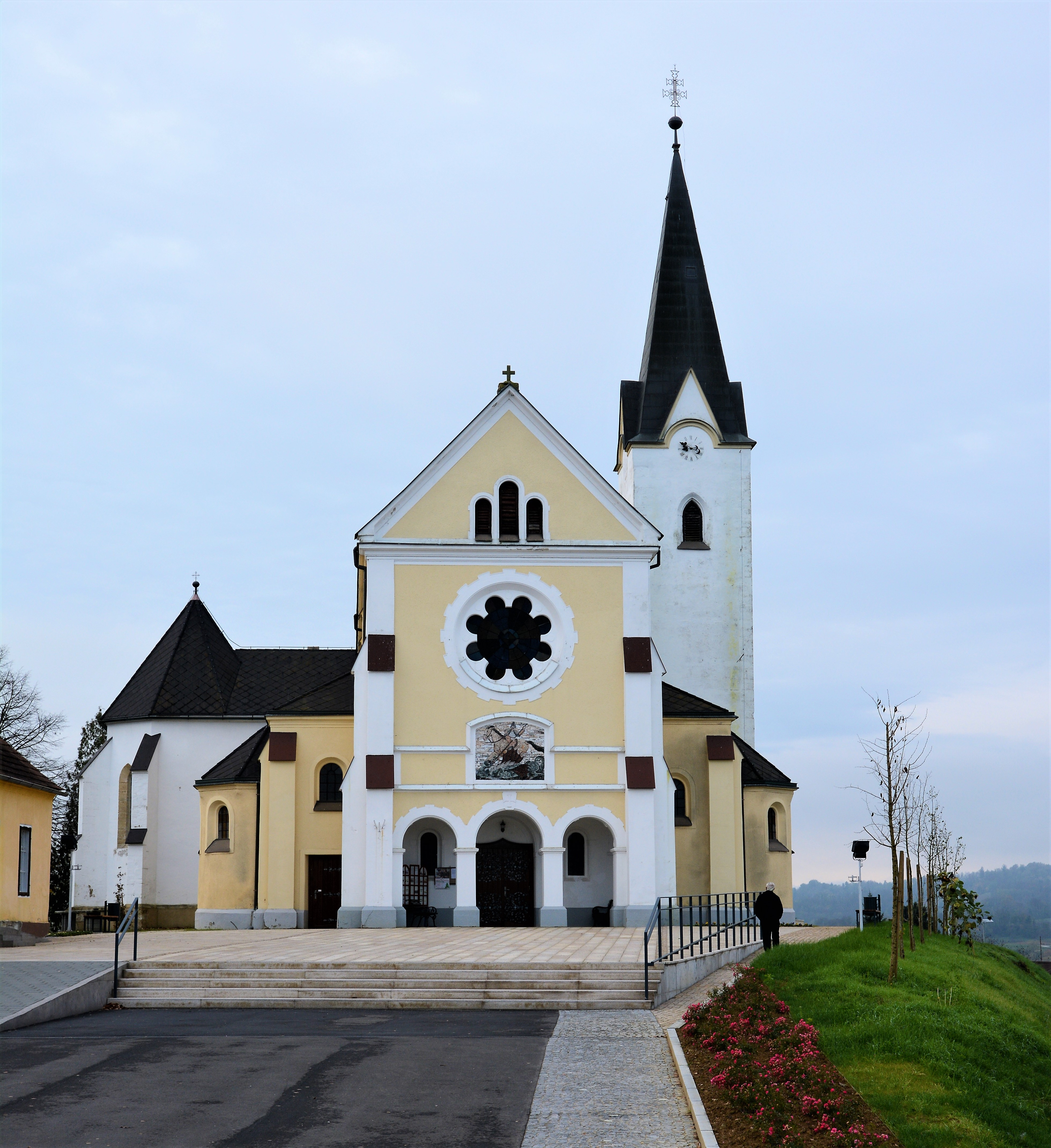 Church Rogasovci